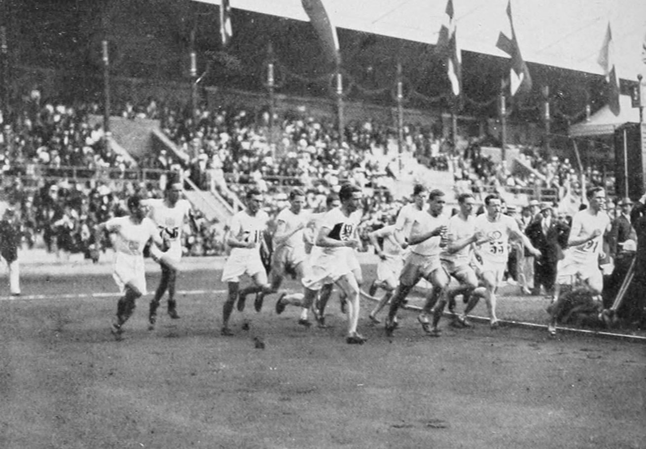 The start of the men's 1500 metre final at the 1912 Summer Olympics.